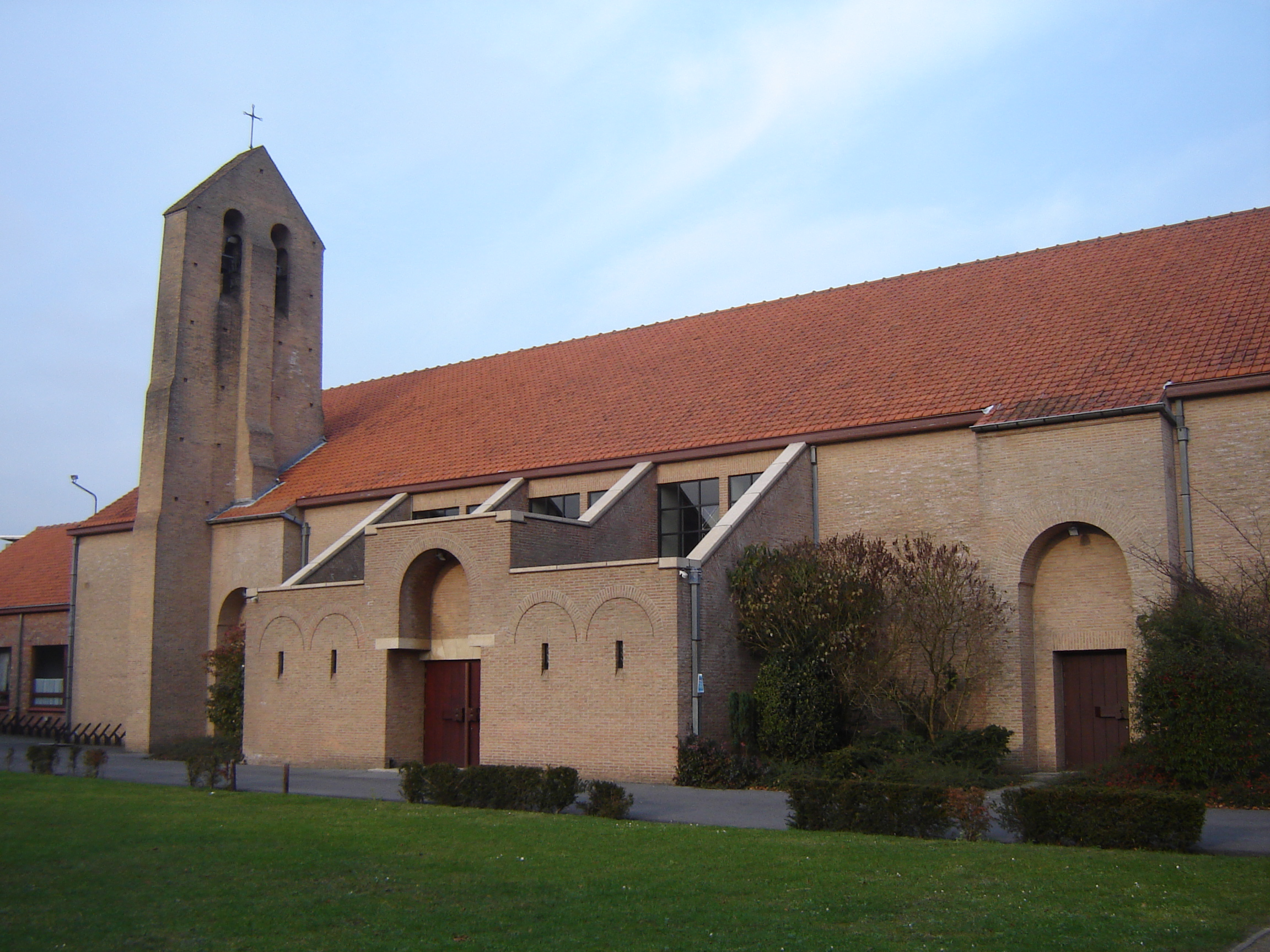 Church of Saint Willibrord in Sint-Andries. Sint-Andries, Brugge, West Flanders, Belgium.